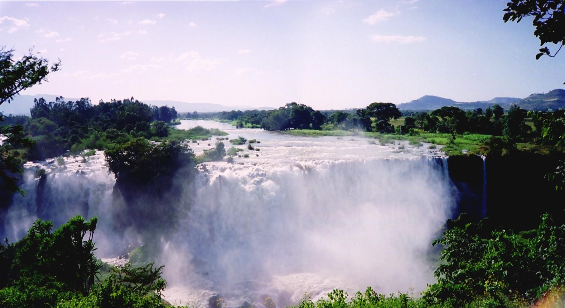 Blue Nile Falls (Tiss Isat Falls), Ethiopia